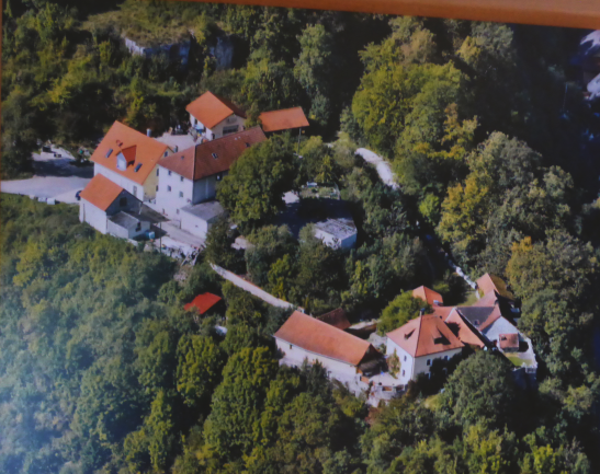 Luftaufnahme_Burg_Rieden (Oberpfalz)